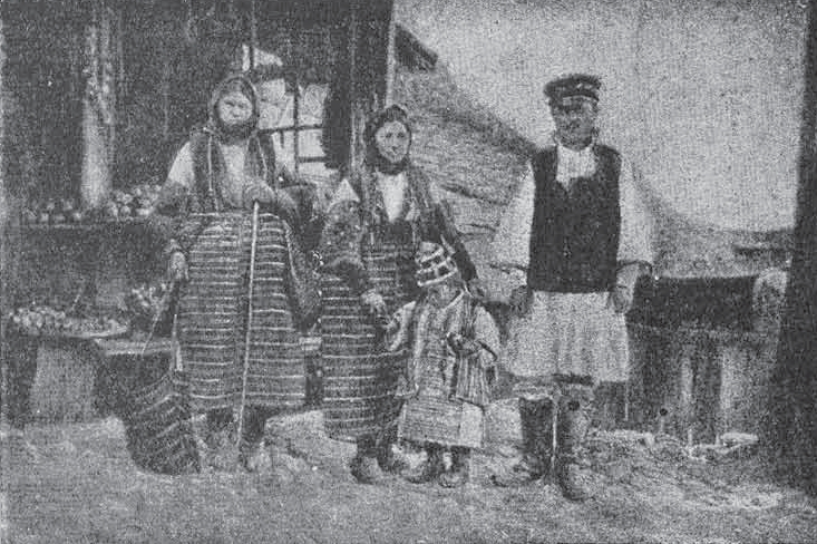 People from Godivje, old